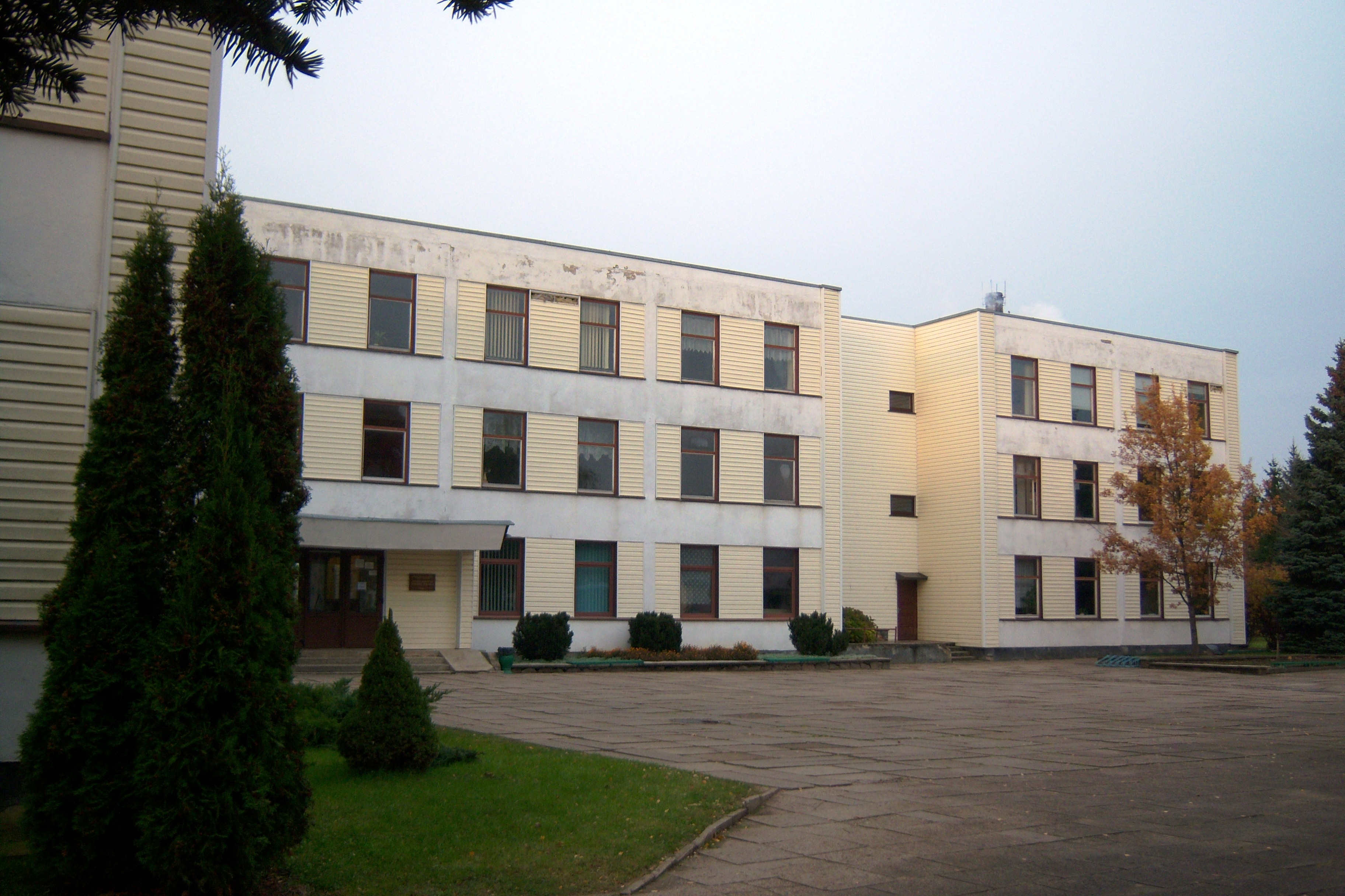 Skuodas, Bartuva Secondary School, Lithuania